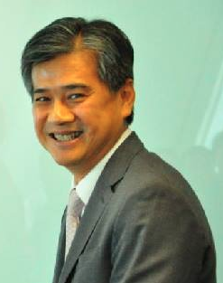 This photo was taken at the 2013 Thailand Opportunity Seminar on 12 December 2012 at Asian Knowledge Institute (AKI).